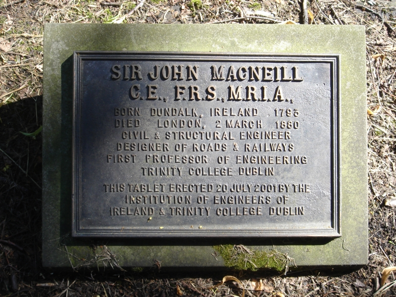 Memorial to John Benjamin Macneill at Brompton Cemetery.